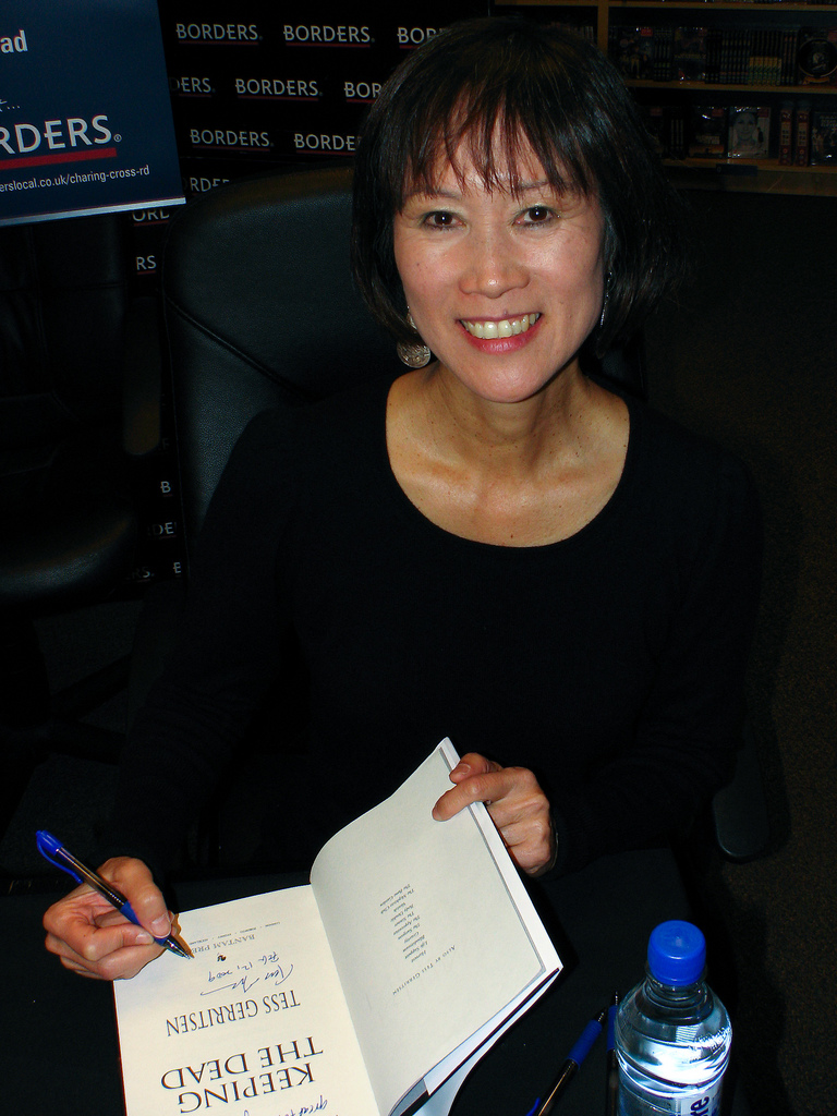 Best-selling author Tess Gerritsen signing my copy of Keeping The Dead at Borders.